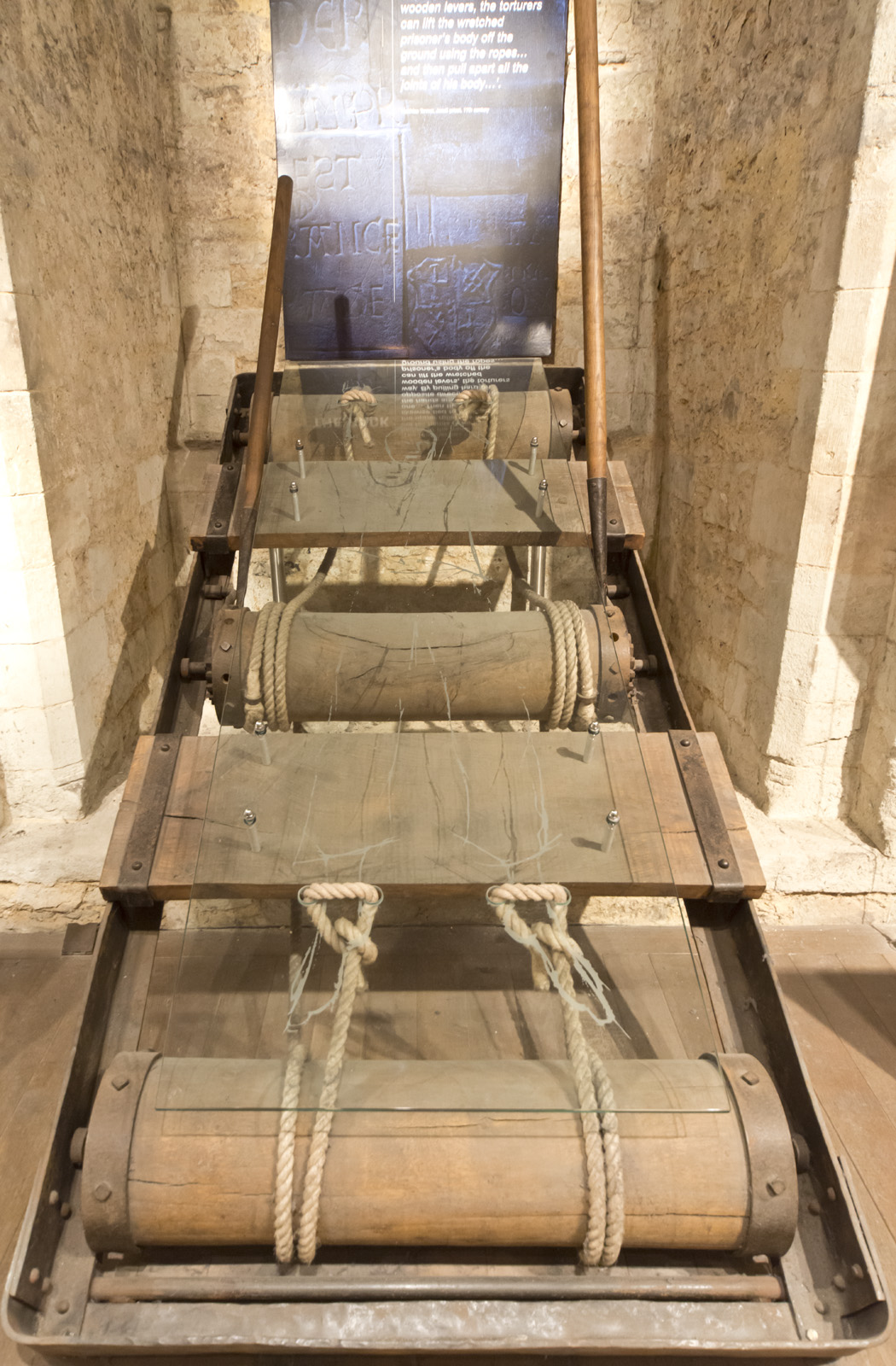 The rack